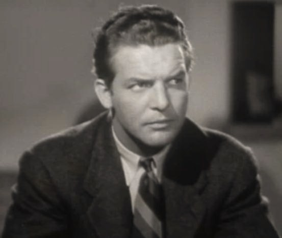 Gordon Jones in I Take This Oath aka Police Rookie - cropped screenshot